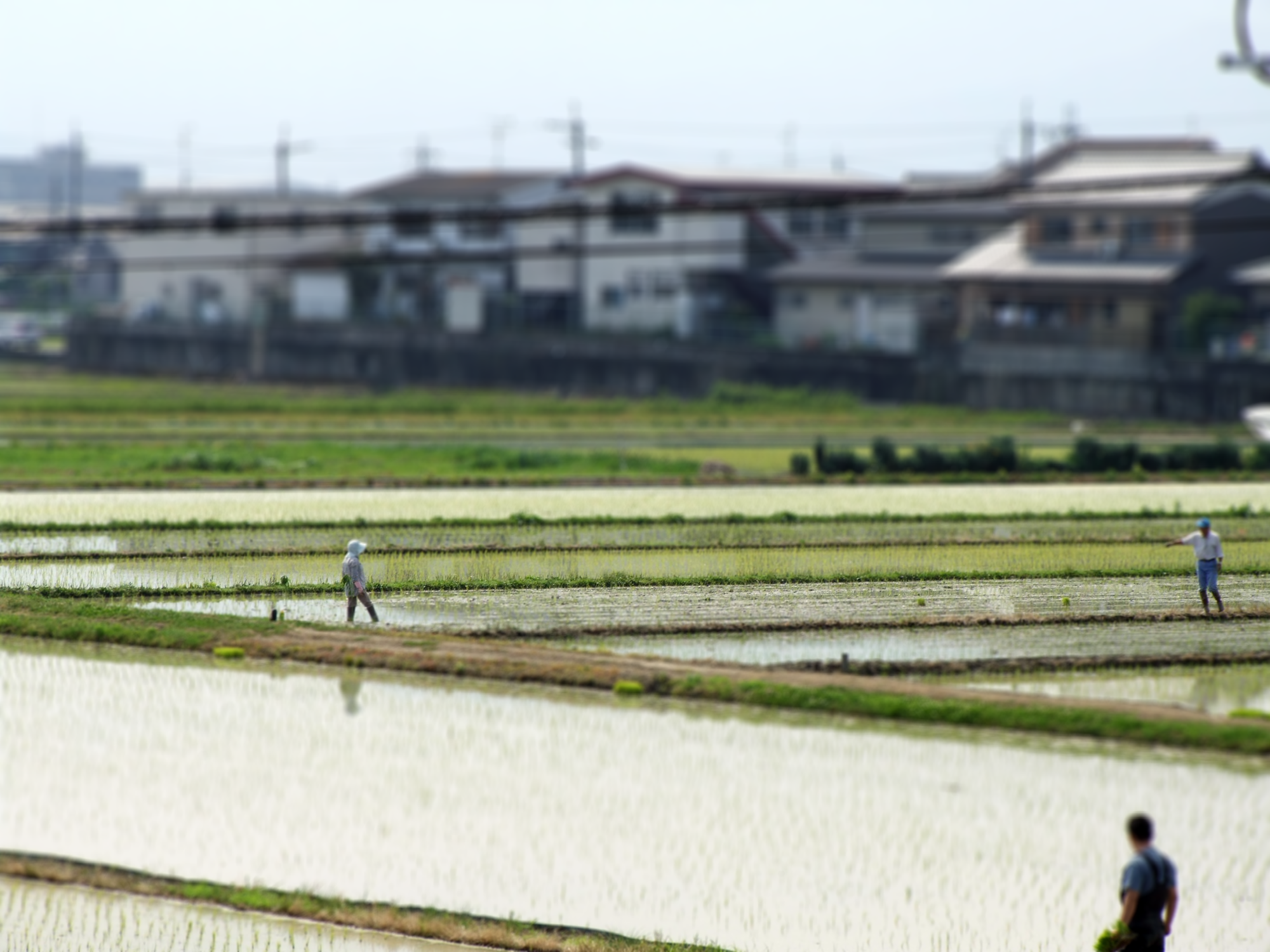 Rice fields near Kasanui station in Tawaramoto-cho